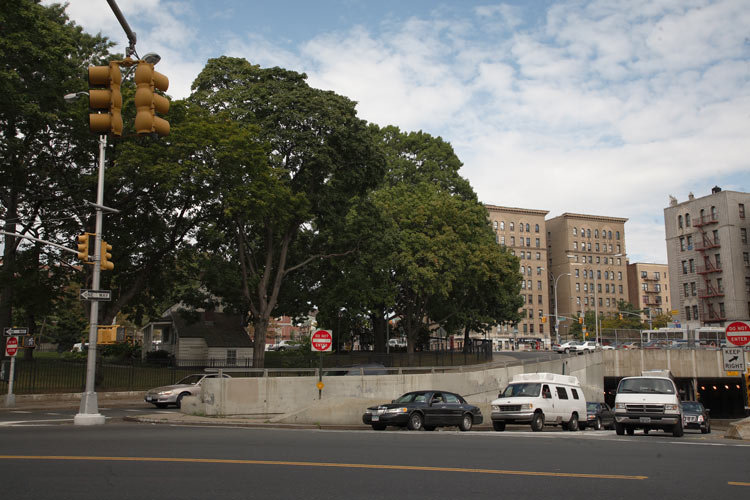 Looking west towards Edgar Allan Poe cottage - with vicinity in the Bronx, NYC, including East Kingsbridge Road in foreground and Grand Concourse in background. See also File:Poecottage-without-vicinity.jpg